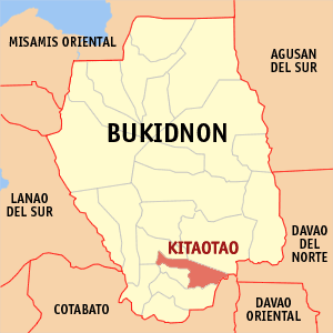 Map of the Bukidnon showing the location of Kitaotao